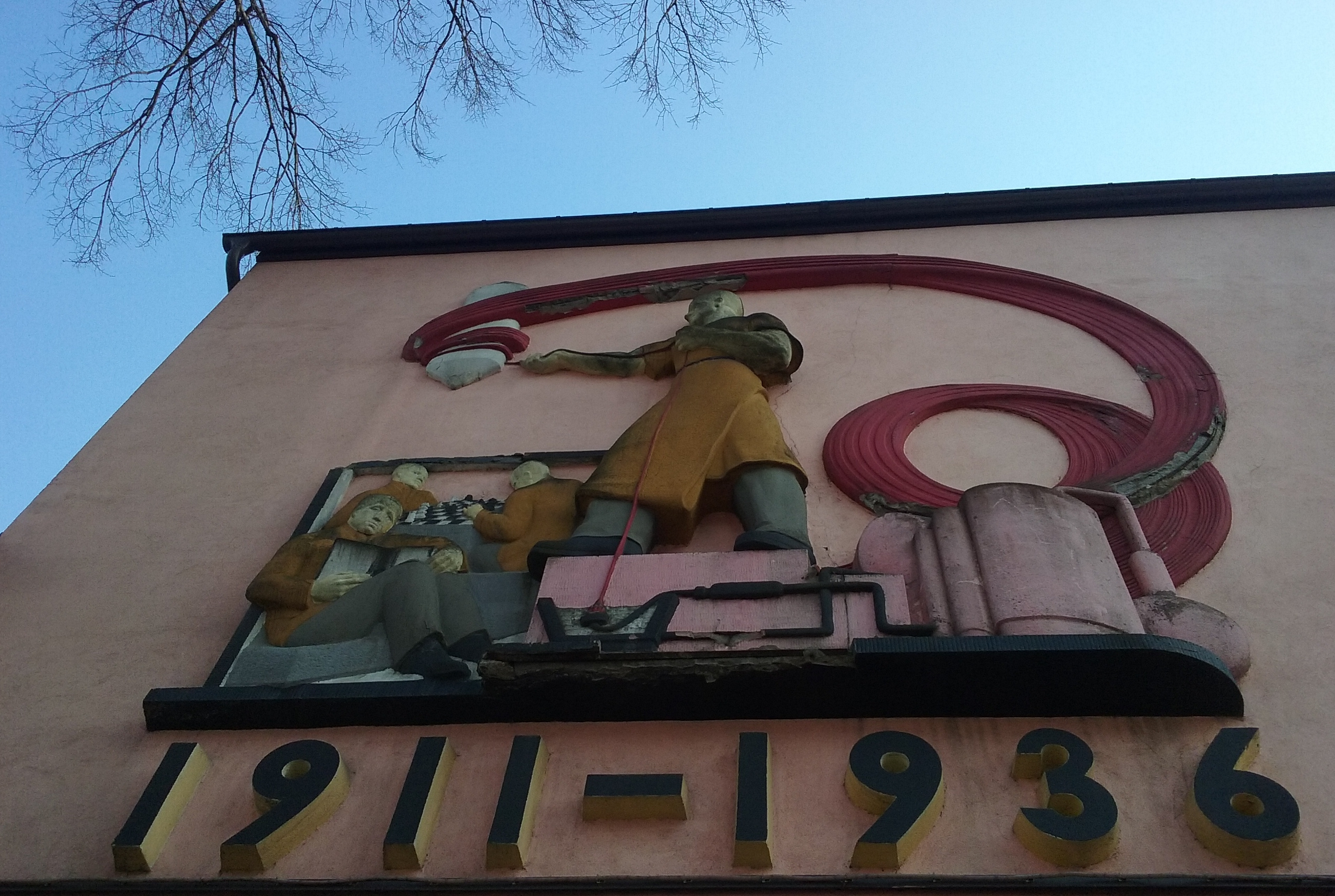 Malinowa restaurant, Spalska Street